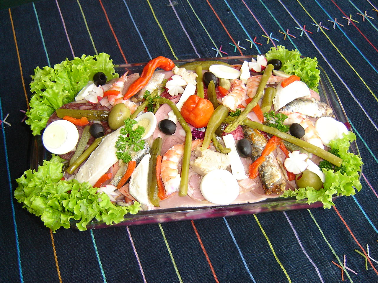 Fiambre, typical dish for the Guatemalan All Saints Day